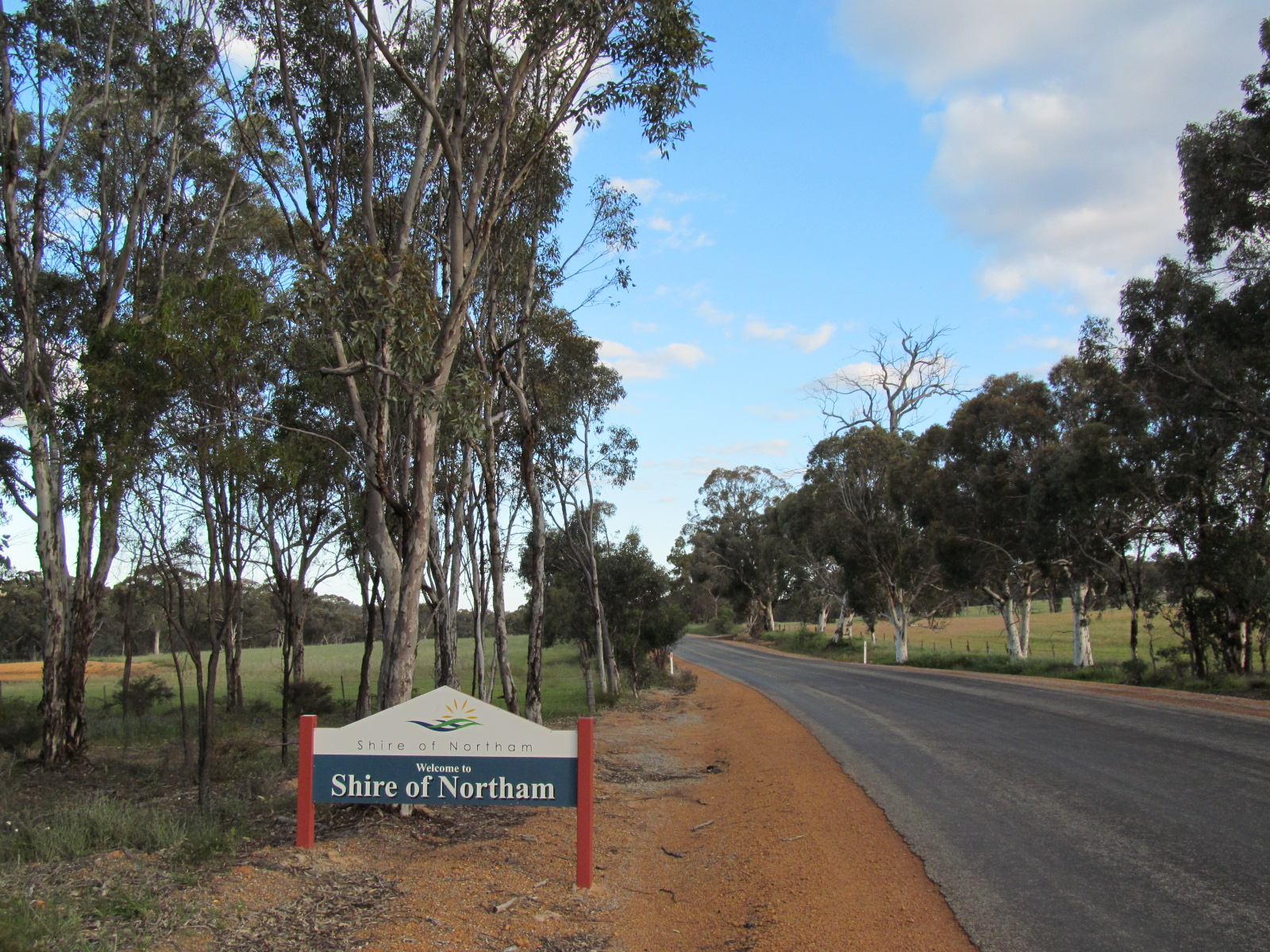 Shire of Northam - welcome sign - Clackline Road, Hoddys Well, Western Australia.